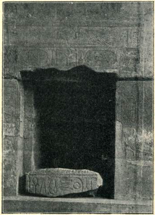 A block inside a niche, both bearing the cartouches of pharaoh Merneferre Ay. From Thebes, 13th dynasty, Second intermediate period.